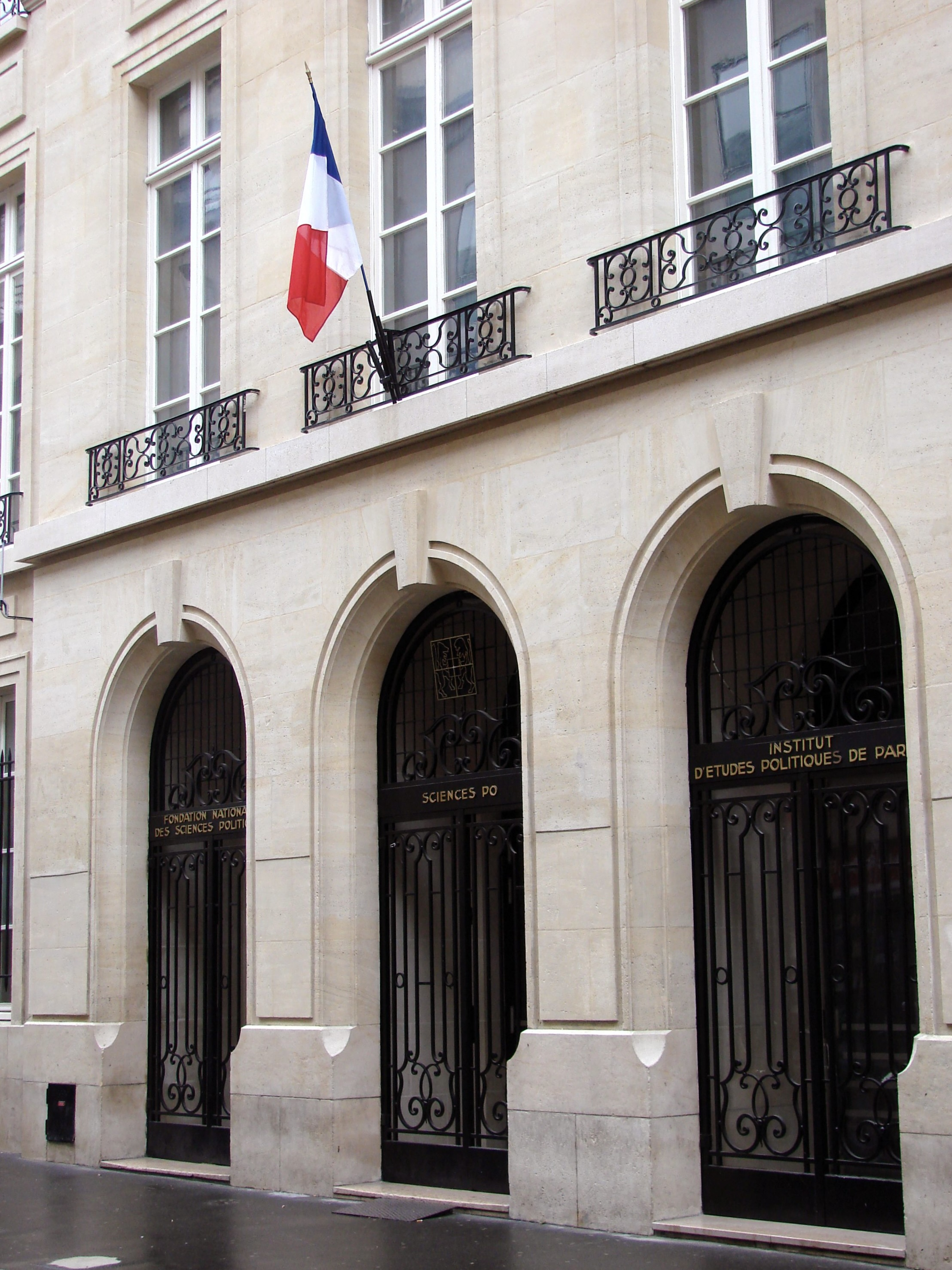 The gate of Sciences Po, 27 rue Saint Guillaume.